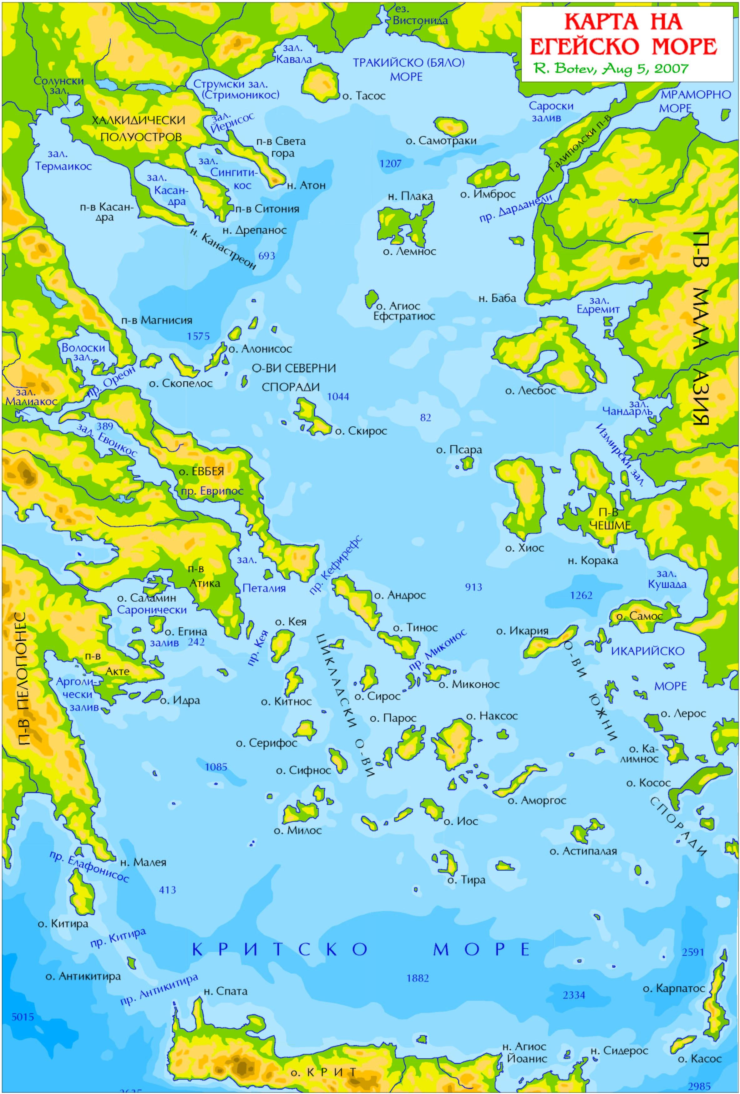 Map of Aegean Sea (in Bulgarian)